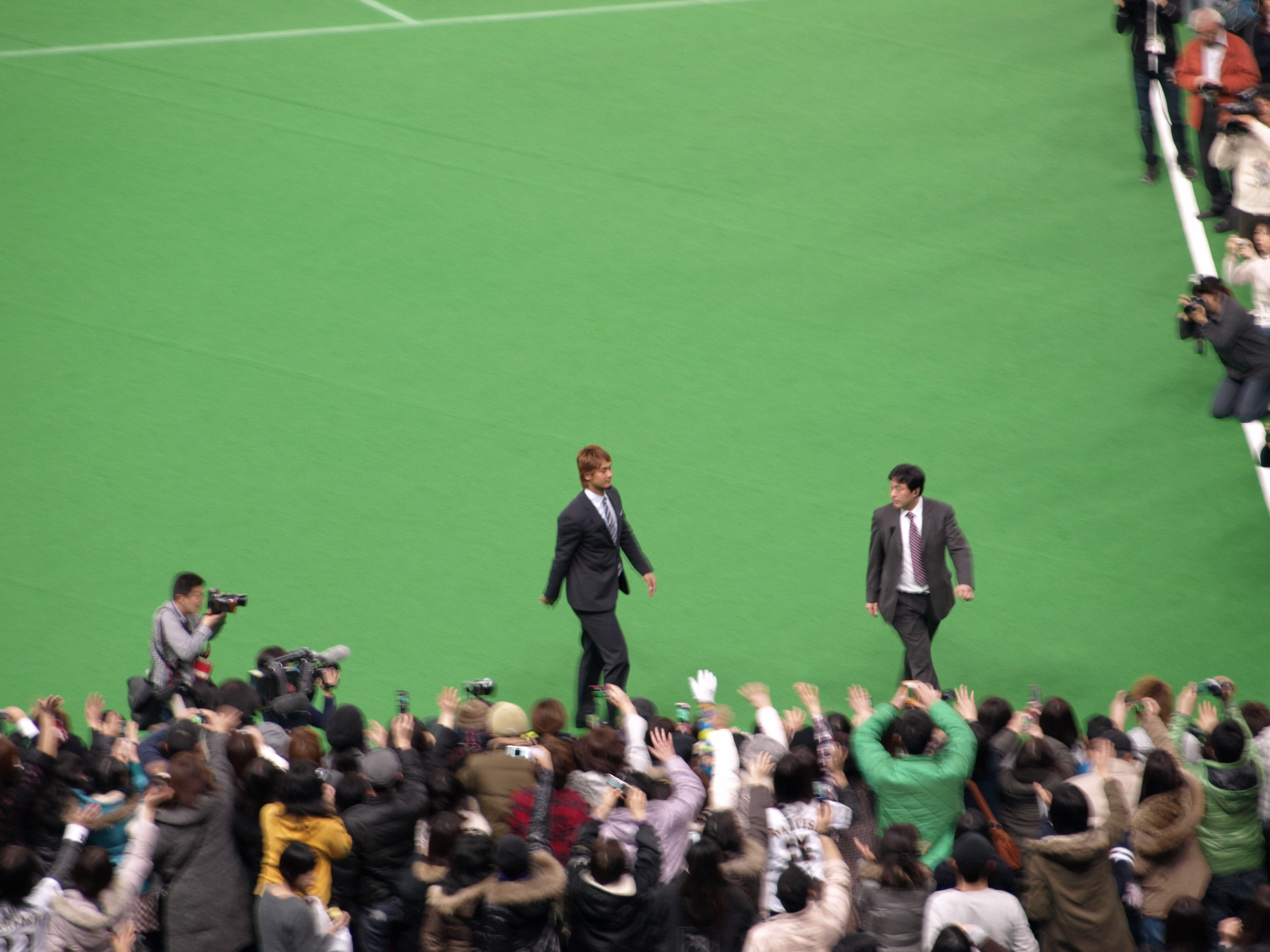 Yu Darvish and Hokkaido Nippon-Ham Fighters held a press conference at Sapporo Dome.